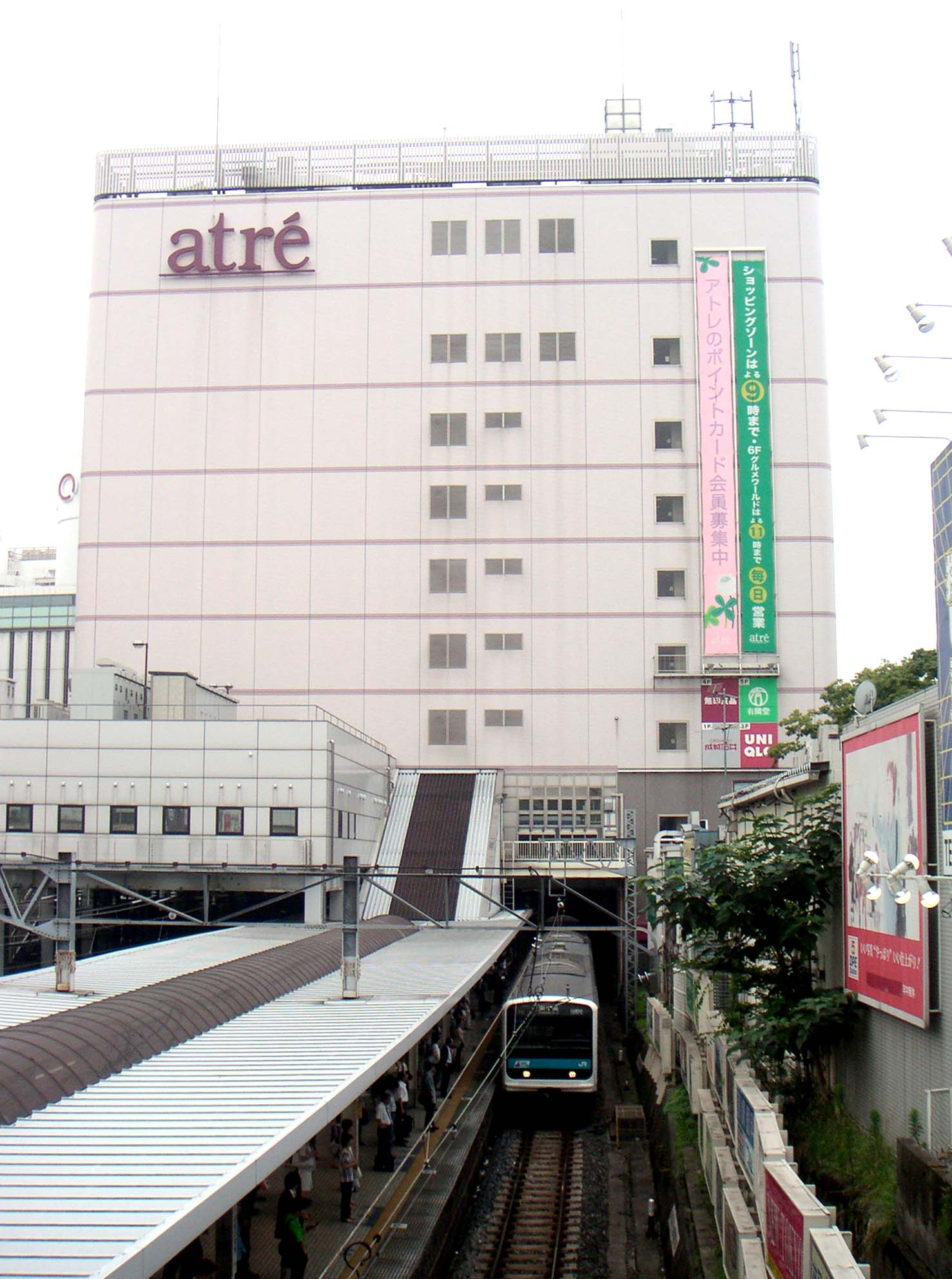 Oimachi Station with Building